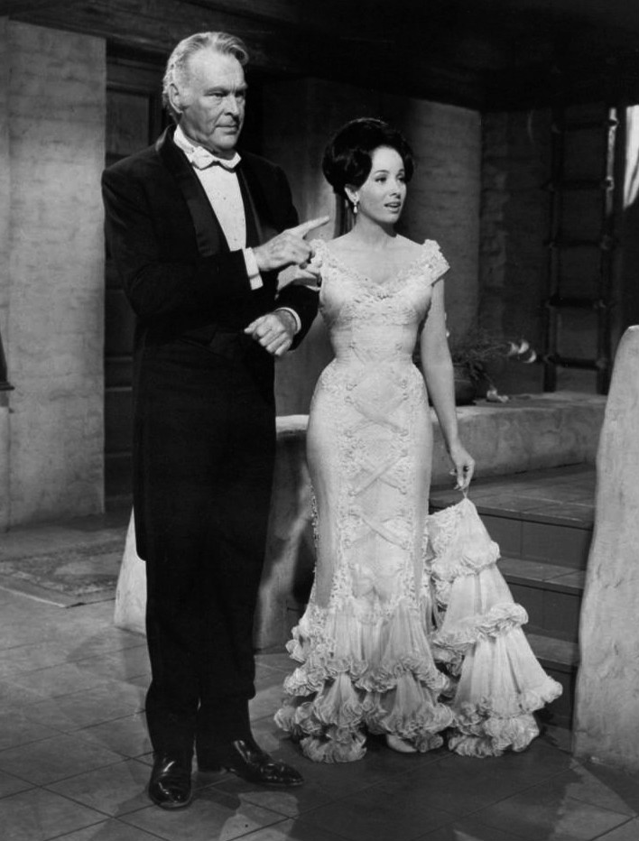 Photo of Leif Erickson and Linda Cristal from the television program The High Chaparral .